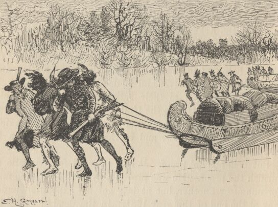 The La Salle on the ice. Illustration by E. H. Garret, from Mark Twain's Life on the Mississippi (1883).